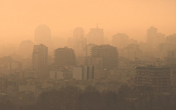 Air pollution of Tehran - 5 January 2013. main album